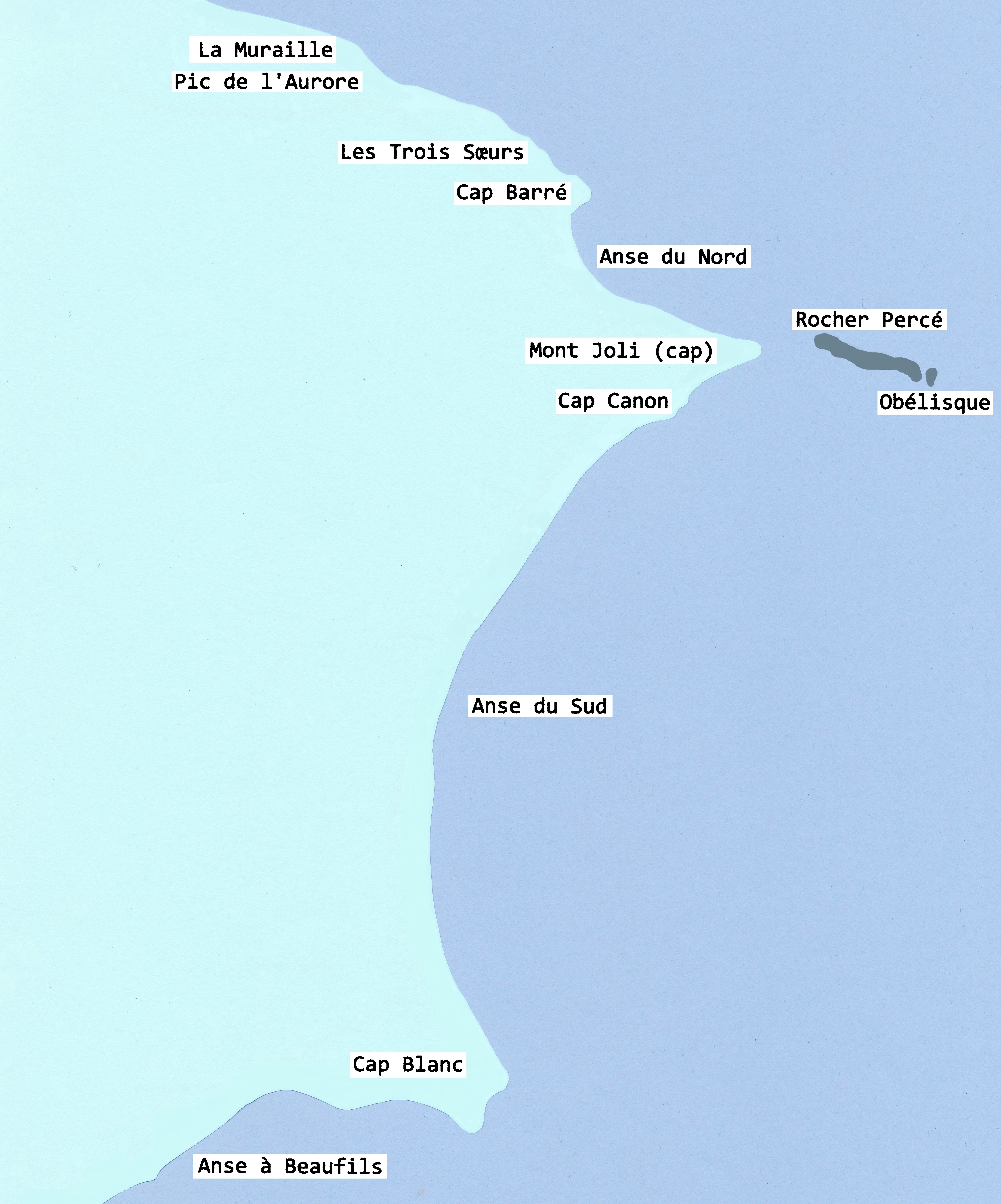 Coastal outline of Percé, Gaspésie, Québec.